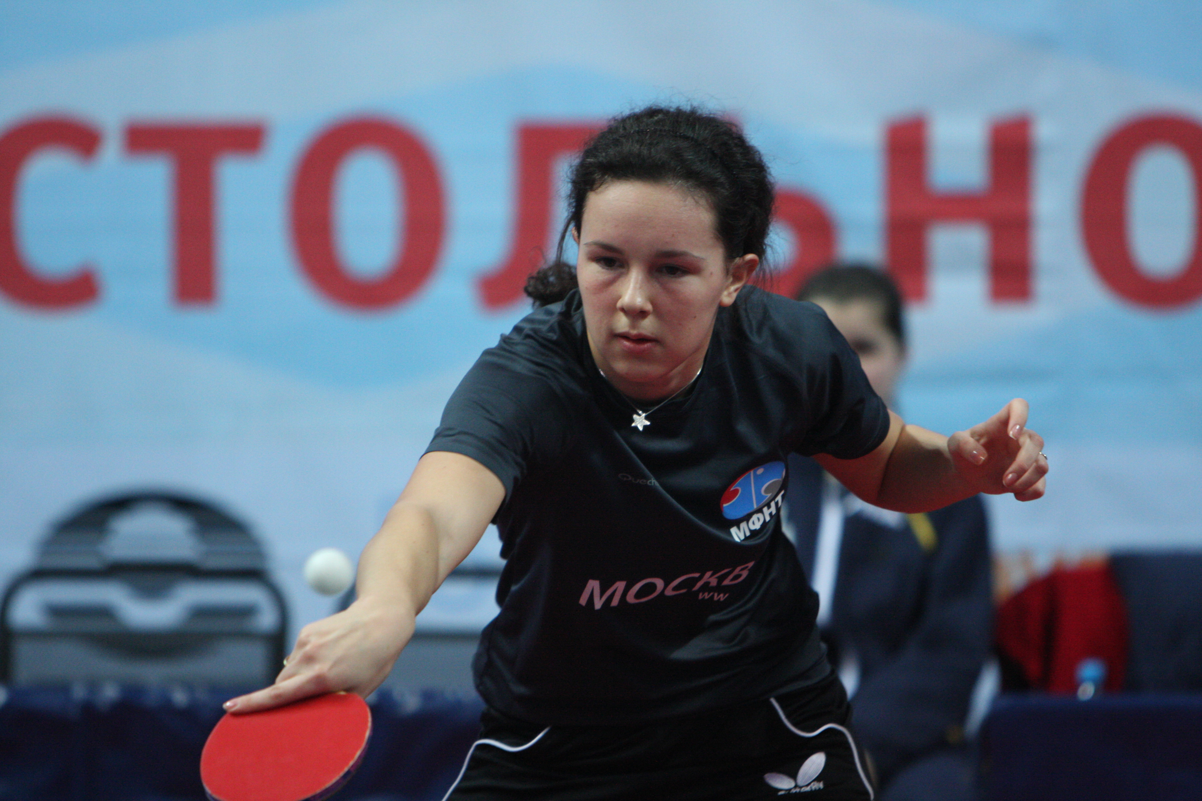 Yulia Prokhorova in 2009